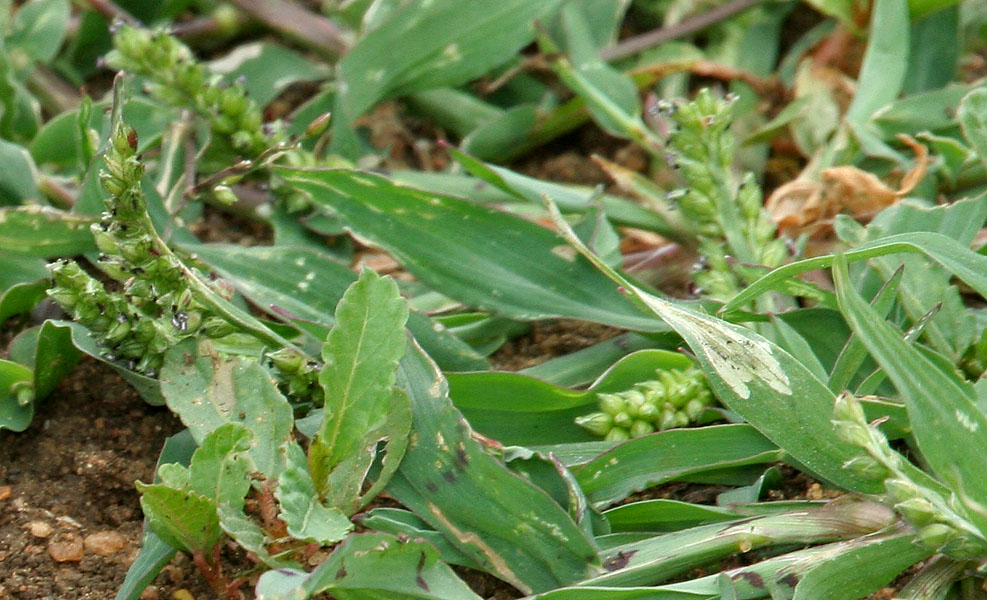 Echinochloa colona- Jungle-rice, awnless barnyard grass, birds rice, corn panic grass, Deccan grass, jungle rice, jungle ricegrass, little baryard grass, millet-rice, pigeon millet, shama millet, short millet, swampgrass • Hindi: Jangli jhangora, Jharwa, Jirio, शामा Shama • Kannada: kaadu haaraka, kaadu haaraka hullu • Marathi: borur, jiria, pacushama, sawank, tor, todia • Telugu: othagaddi- at Pocharam lake, Andhra Pradesh, India.